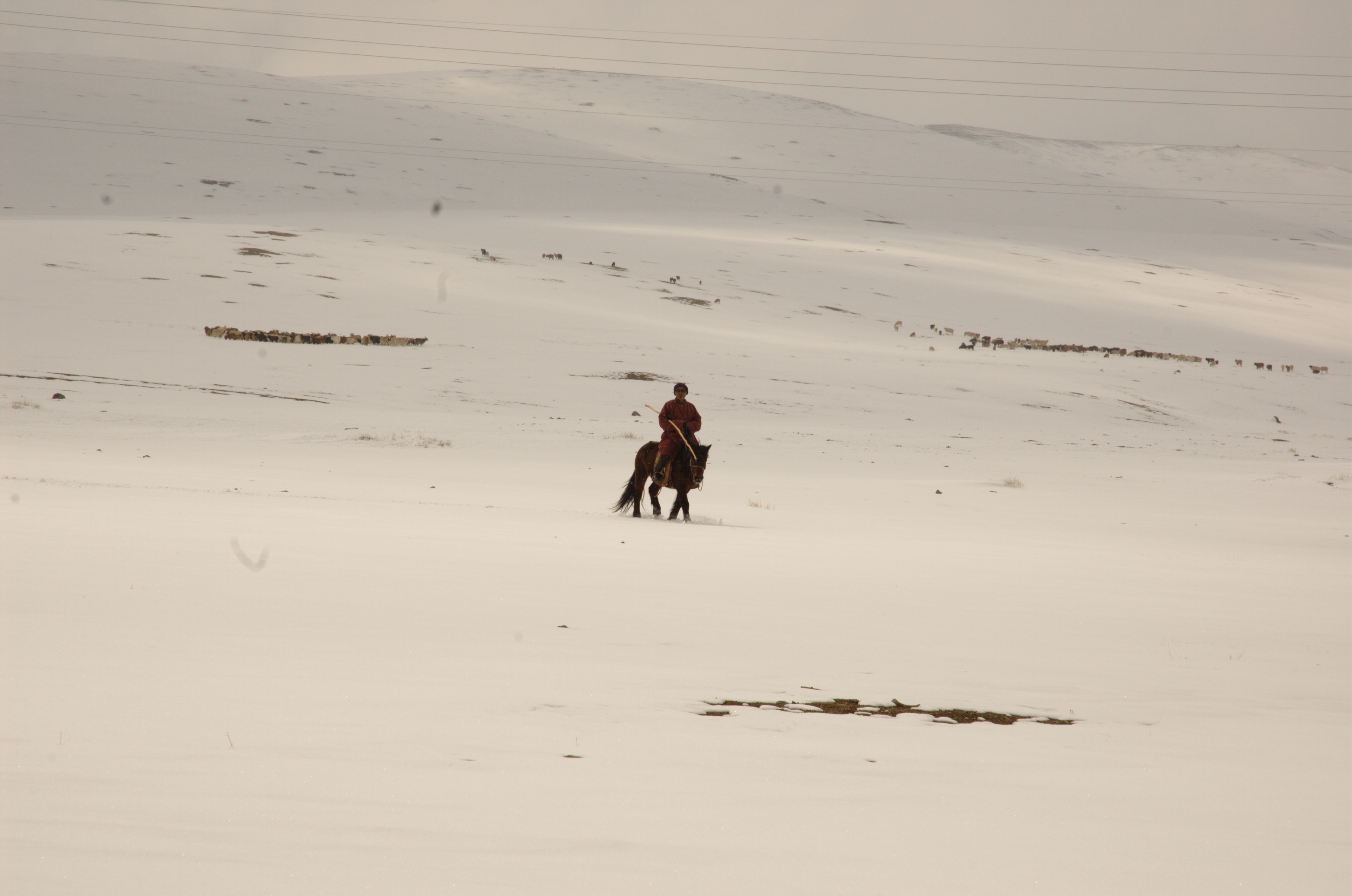 Finding his goats together in Harhorin, Ovorhangay, Mongolei